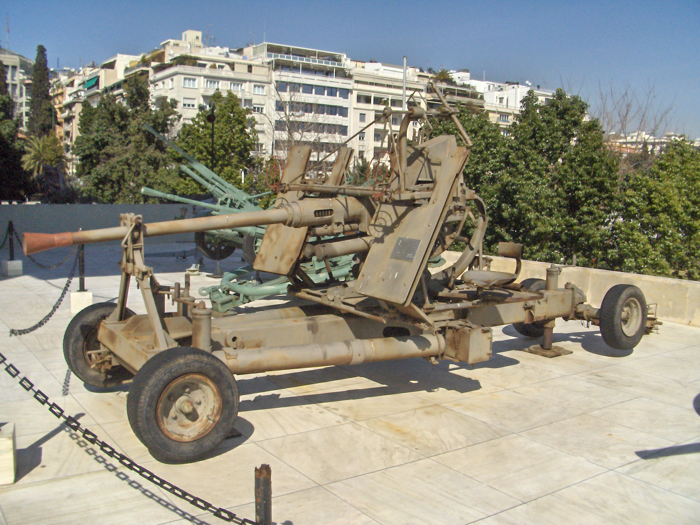 Exhibit at the War Museum in Athens. Bofors Mk I Anti Aircraft gun